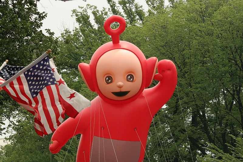 Giant Teletubby Invades DC